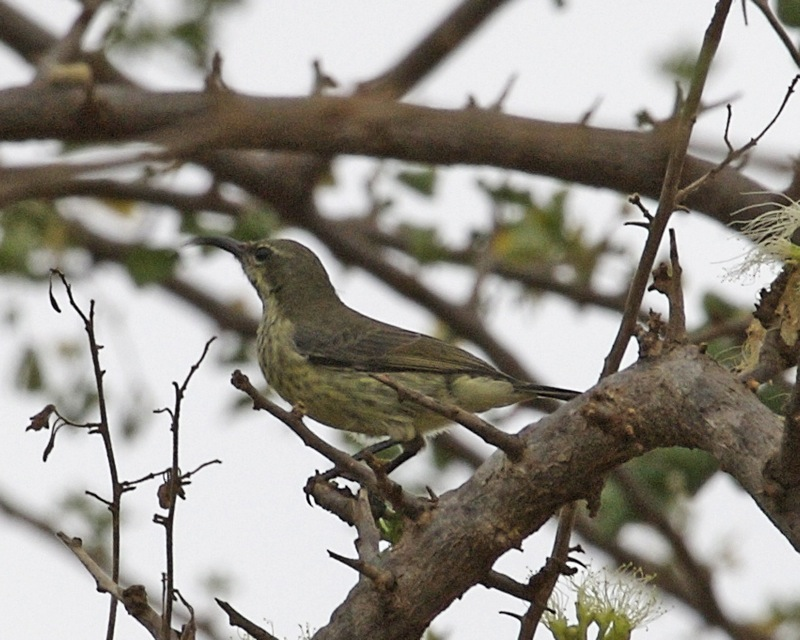 Red-chested Sunbird (Cinnyris erythrocercus) female